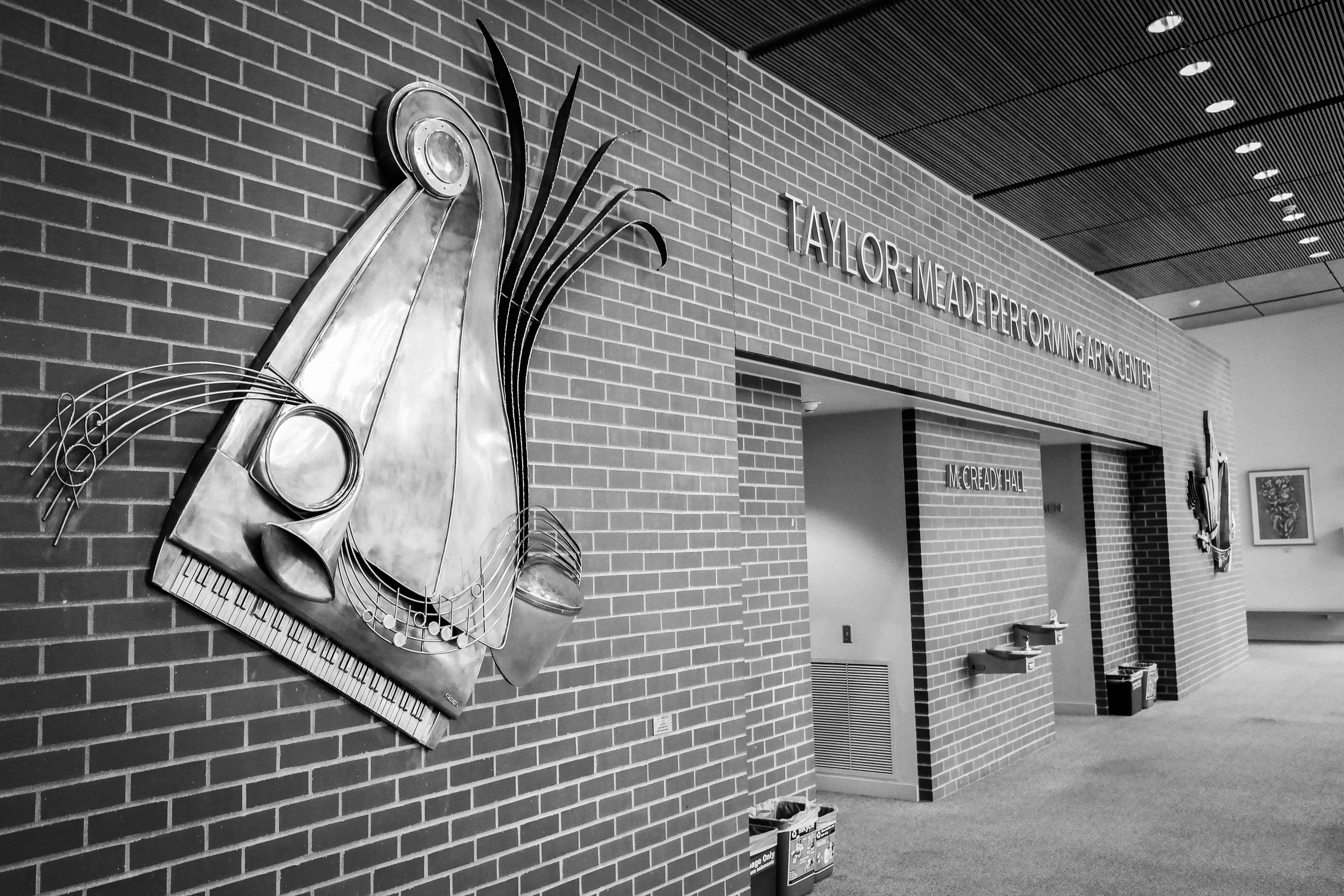 Taylor-Meade Performing Arts Center at Pacific University in Forest Grove, Oregon